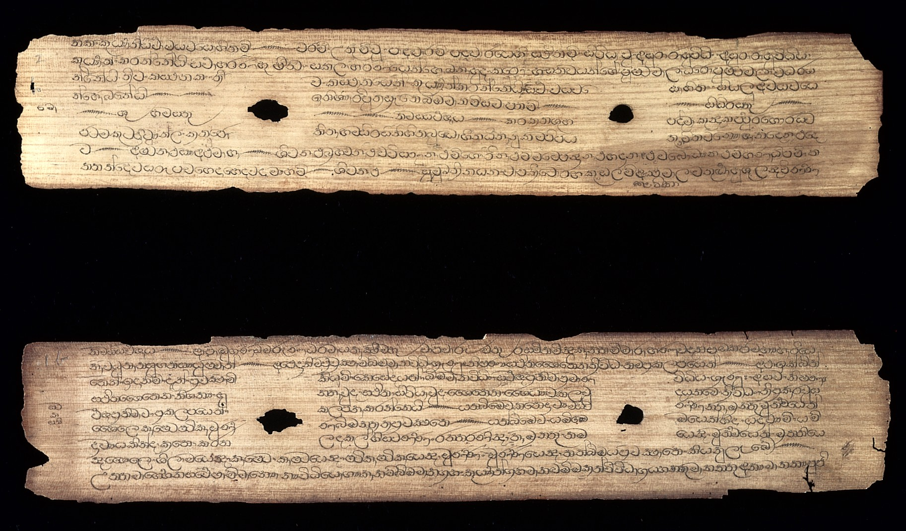 Two palm leaves from a text on the construction of images. Asian Collection